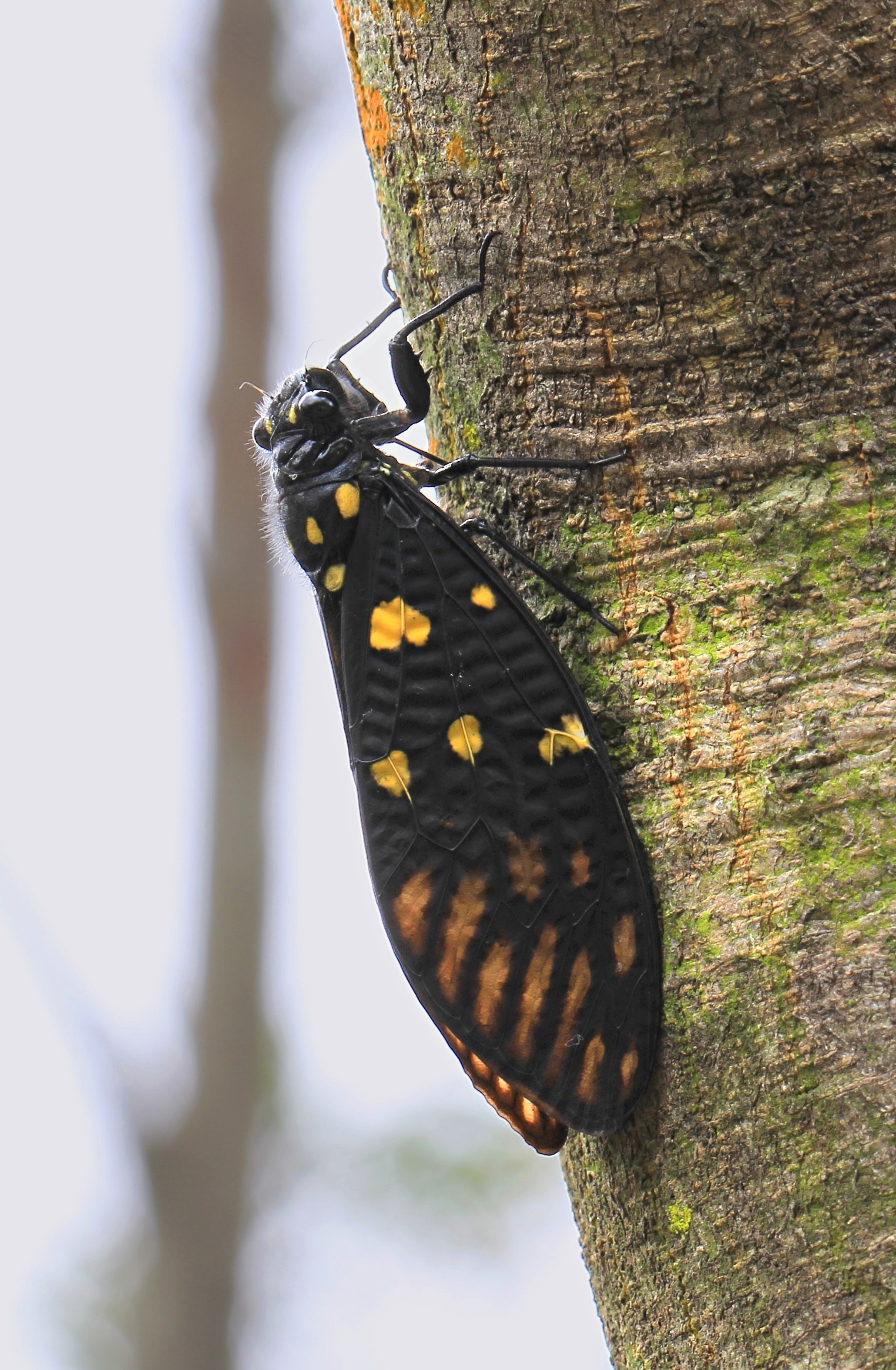 Gaeana maculata, Speckled Black Cicada, taken in Kowloon, Hong Kong